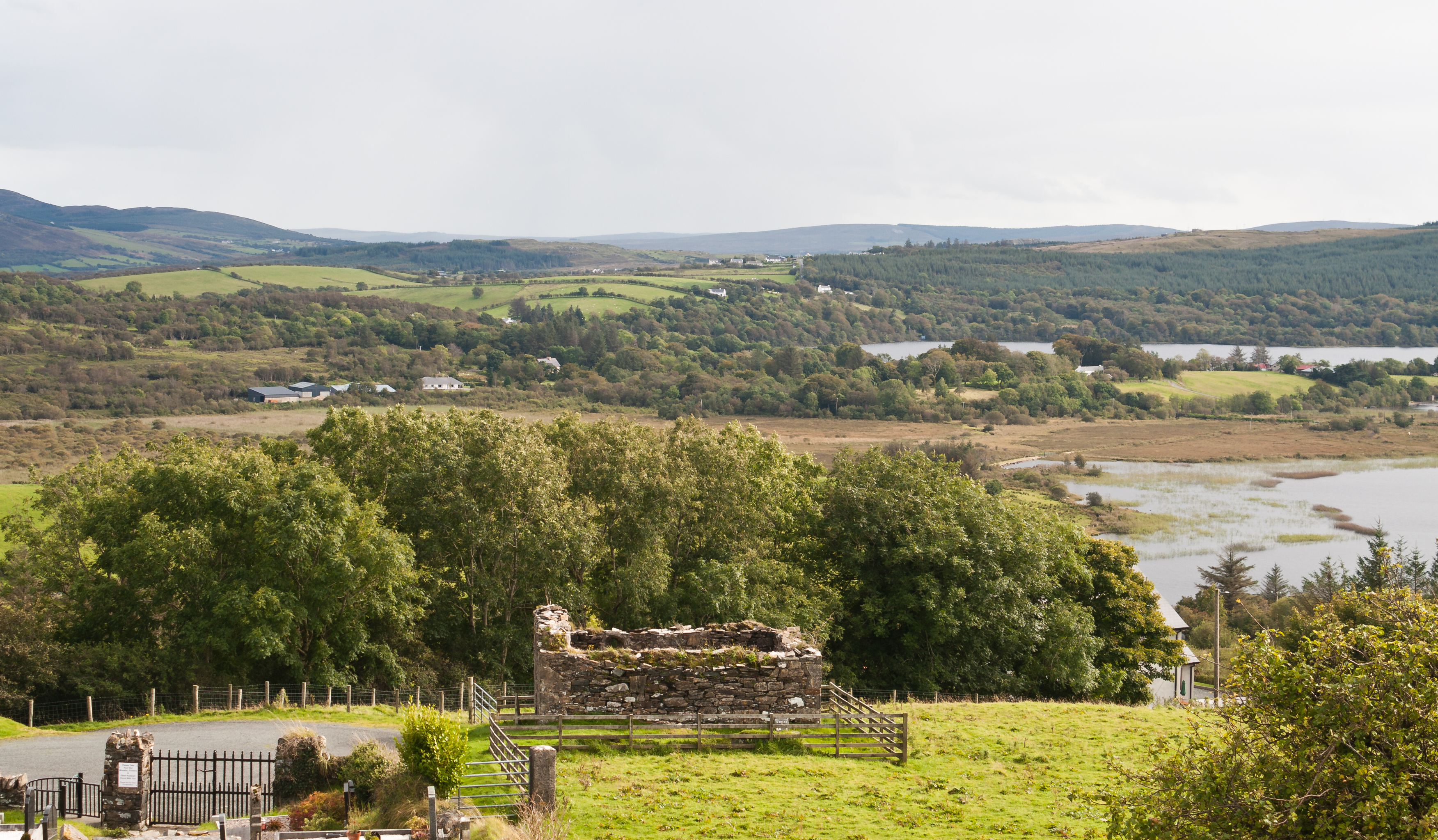 St. Columbkille's Chapel with Gartan Lough in the background.